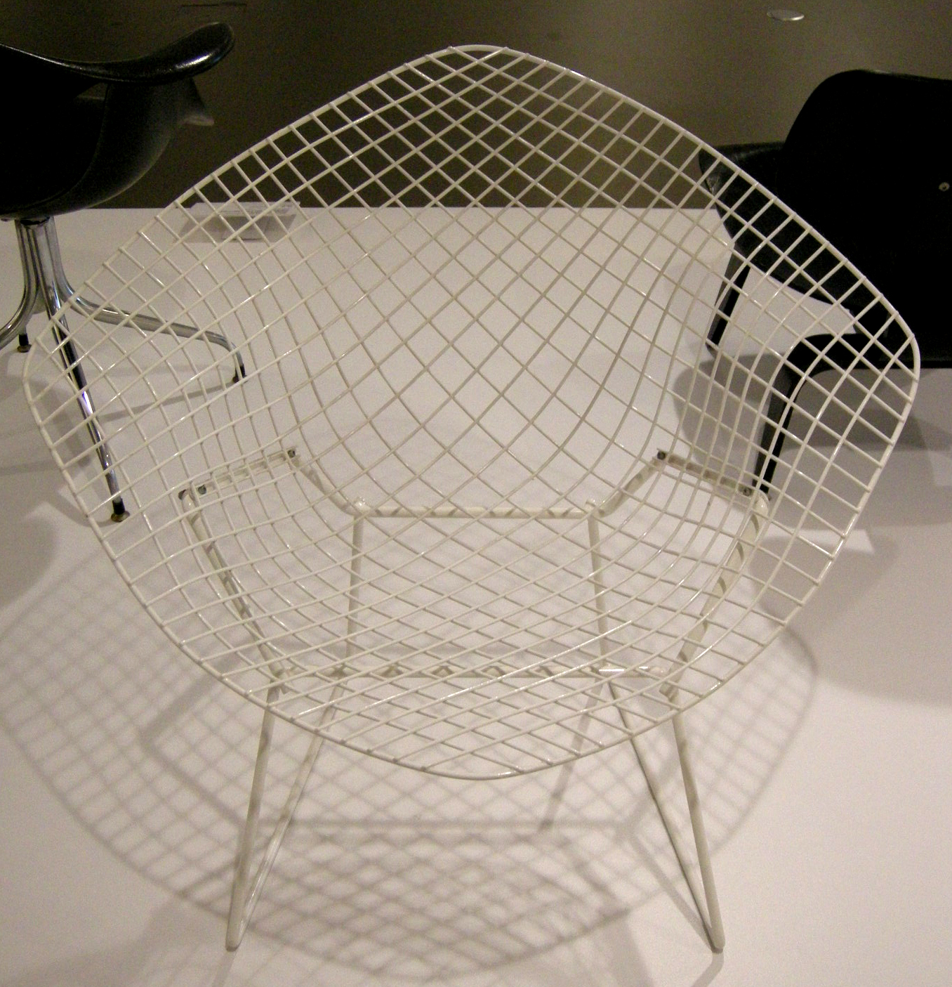 Ngv design, harry bertoia, diamond chair, 1951